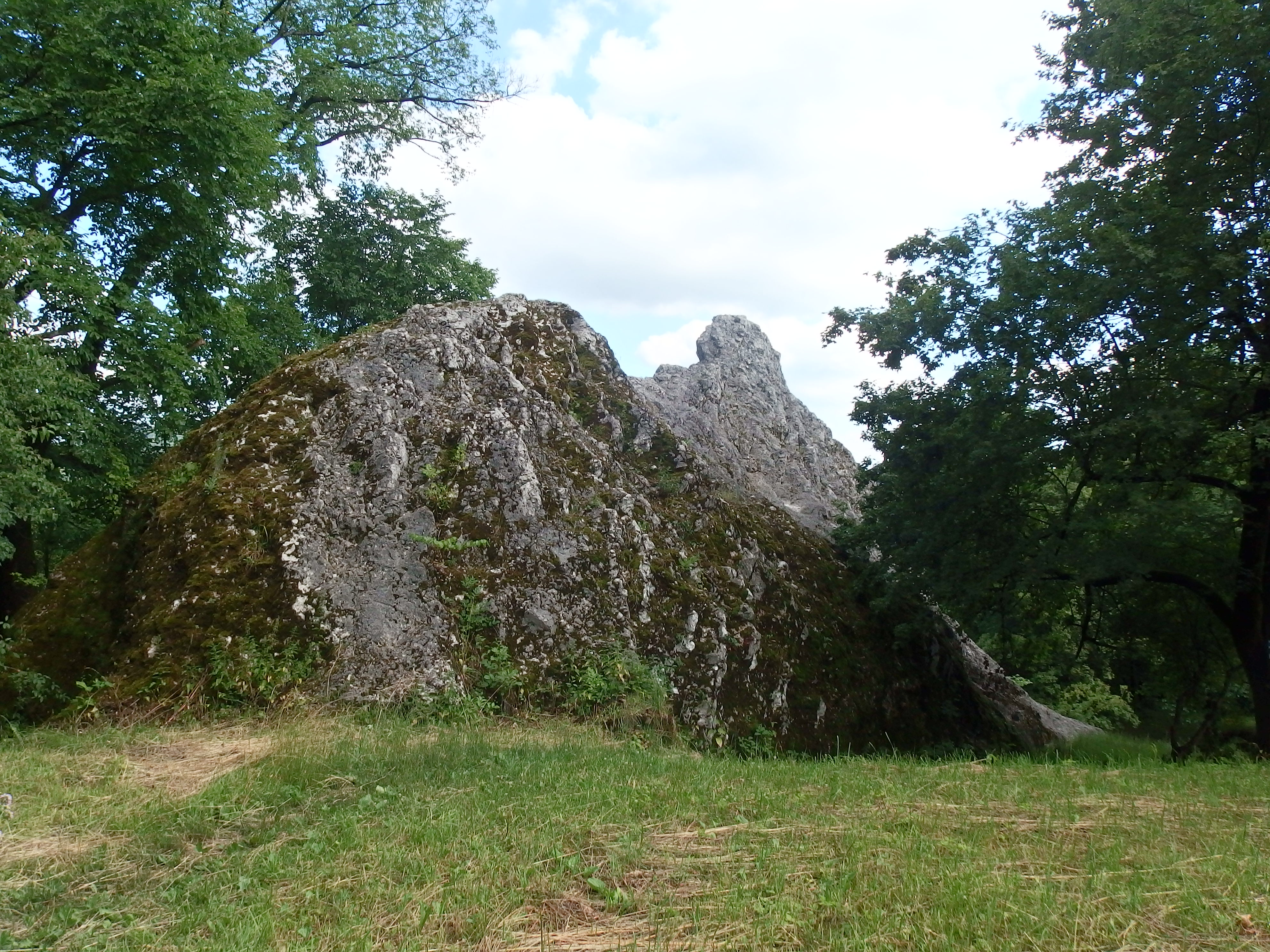 Kopřivnice, Nový Jičín District, Czech Republic. Váňův kámen, natural monument.